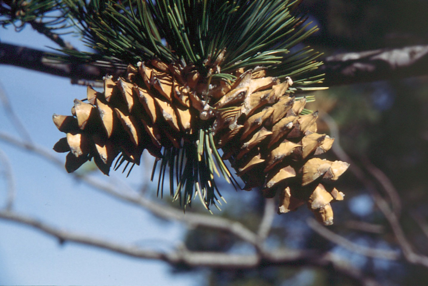 Limber Pine. Cones.